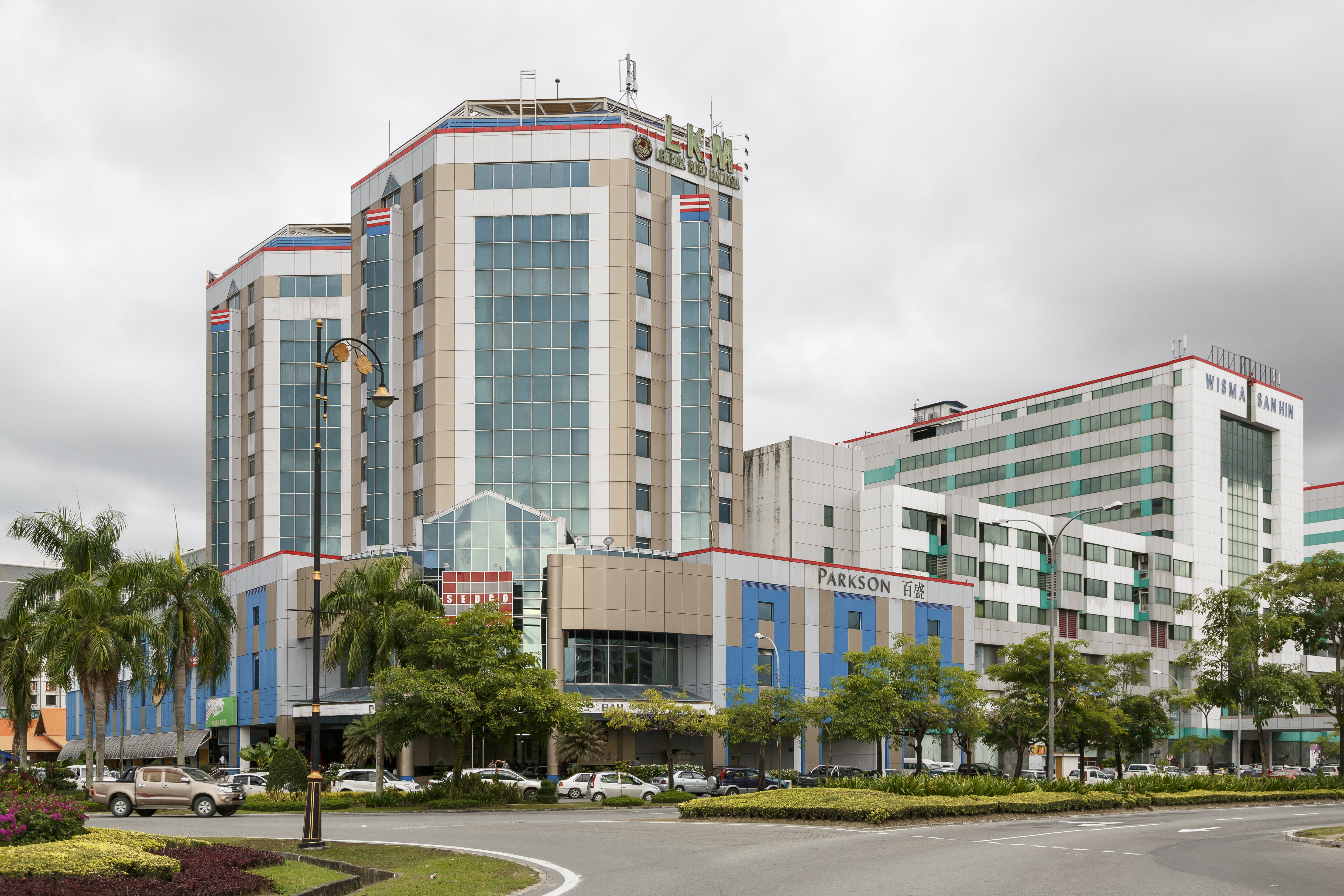 Kota Kinabalu, Sabah, Malaysia: Wawasan Plaza Building. It houses Parkson, SEDCO and LKM (Lembaga Koko Malaysia = Malaysian Cocoa Board). The tower part is named Wisma Sedco upon the government agency Sabah Economic Development Corporation (SEDCO)